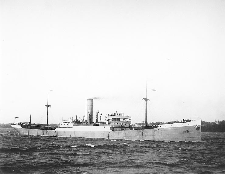 Commercial cargo ship SS Buena Ventura, also spelled Buenaventura and painted with this spelling on her bow in this photo, prior to her US Navy service as USS Buena Ventura (ID-1335) (or USS Buenaventura).